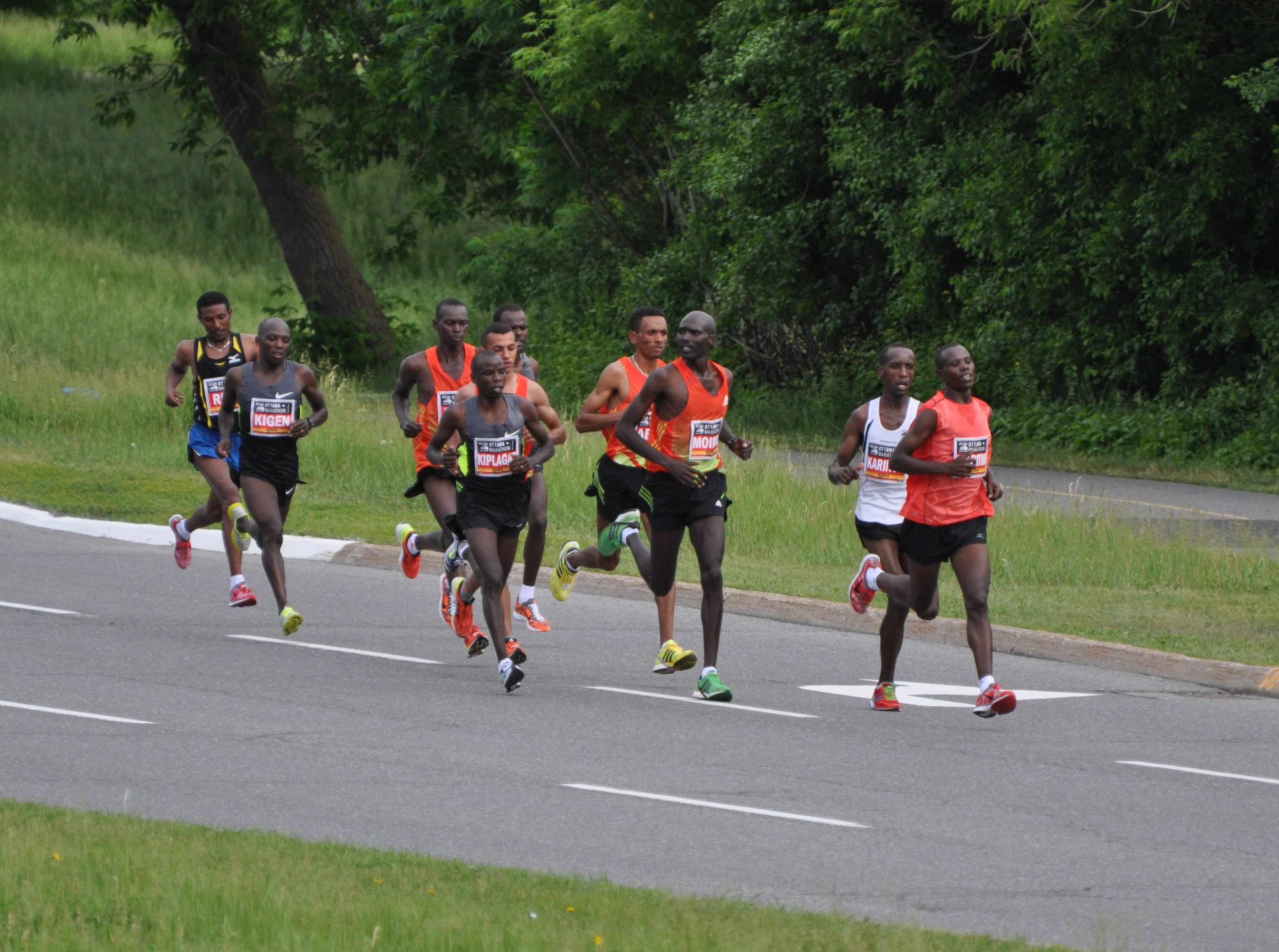 The lead group in the 2012 Ottawa Marathon pass the 18 km marker, on the Ottawa River Parkway.